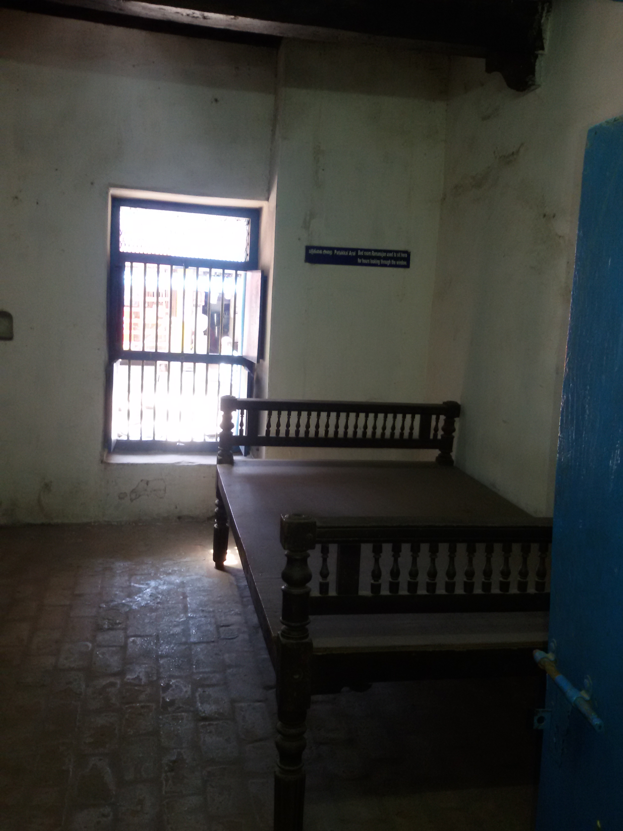 Srinivasa Ramanujan's bedroom